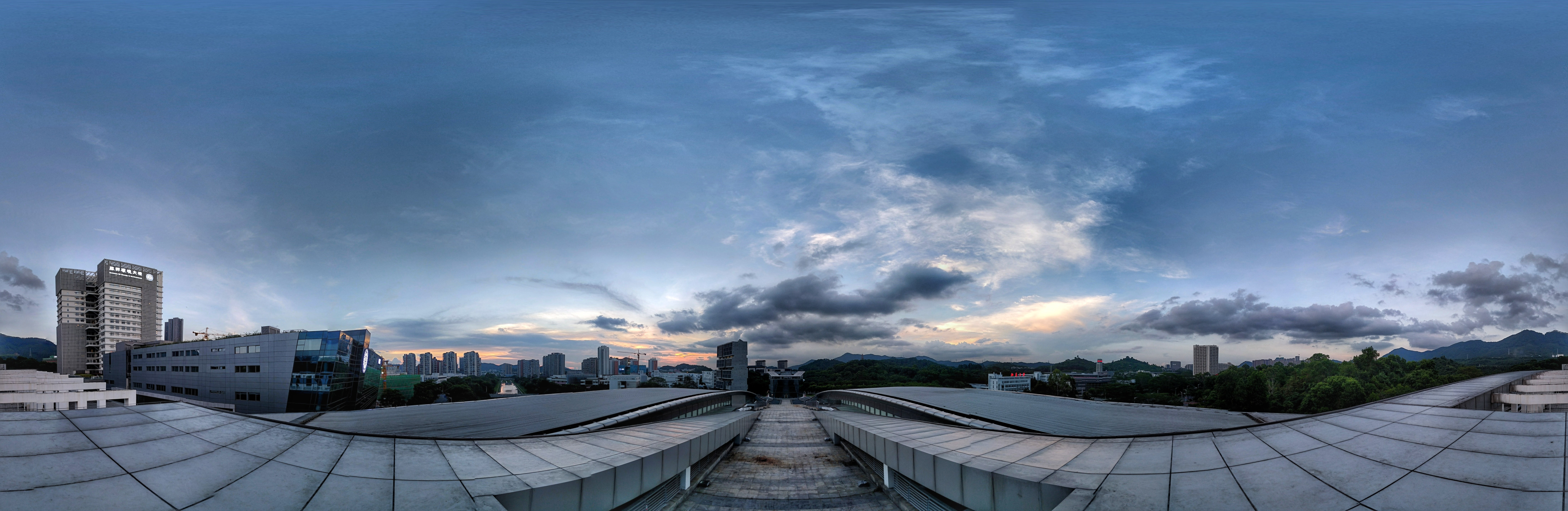 PANO of University Town Shenzhen on Shenzhen Science and Technology Library